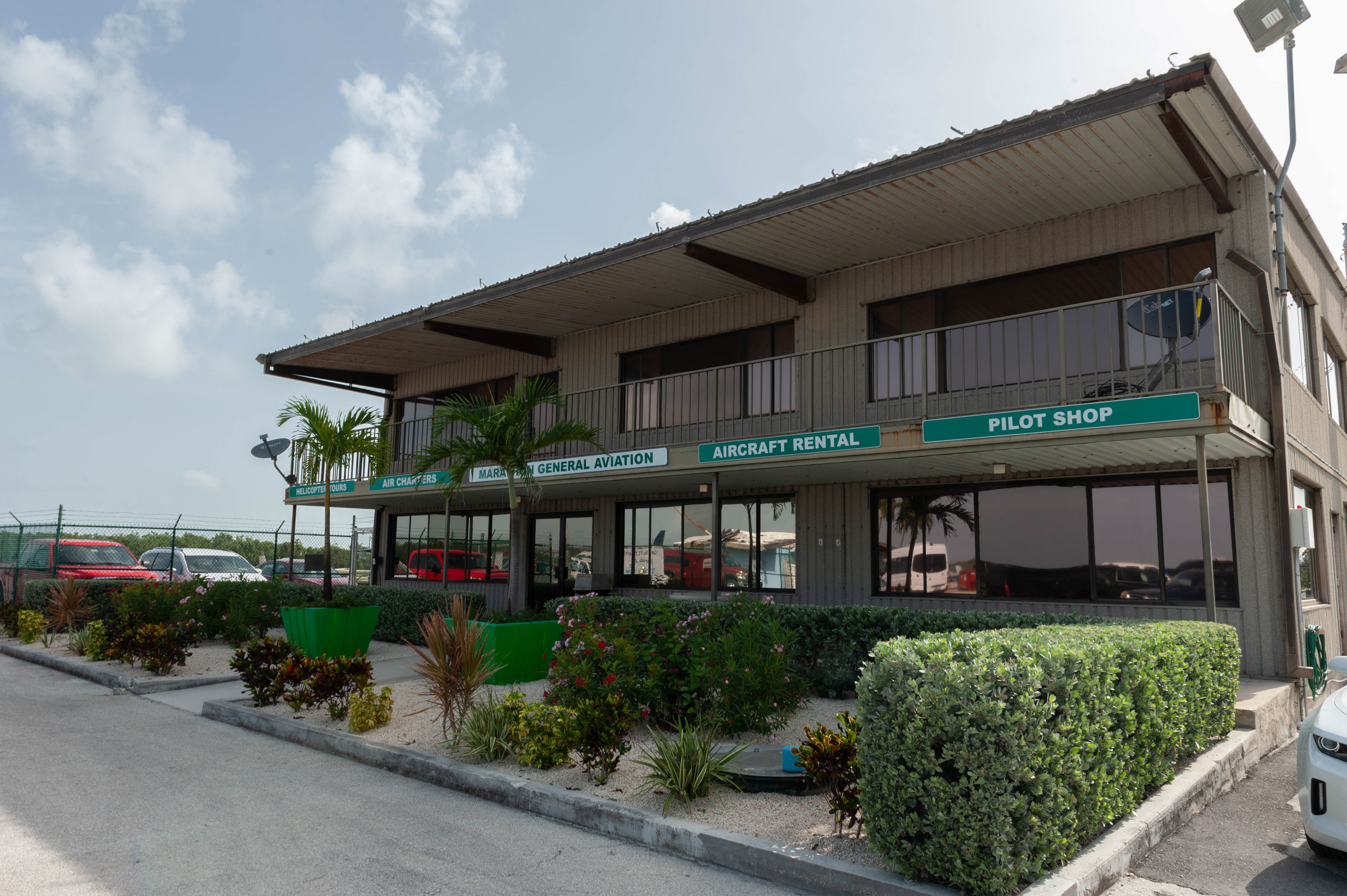 Marathon Airport FBO on June 218